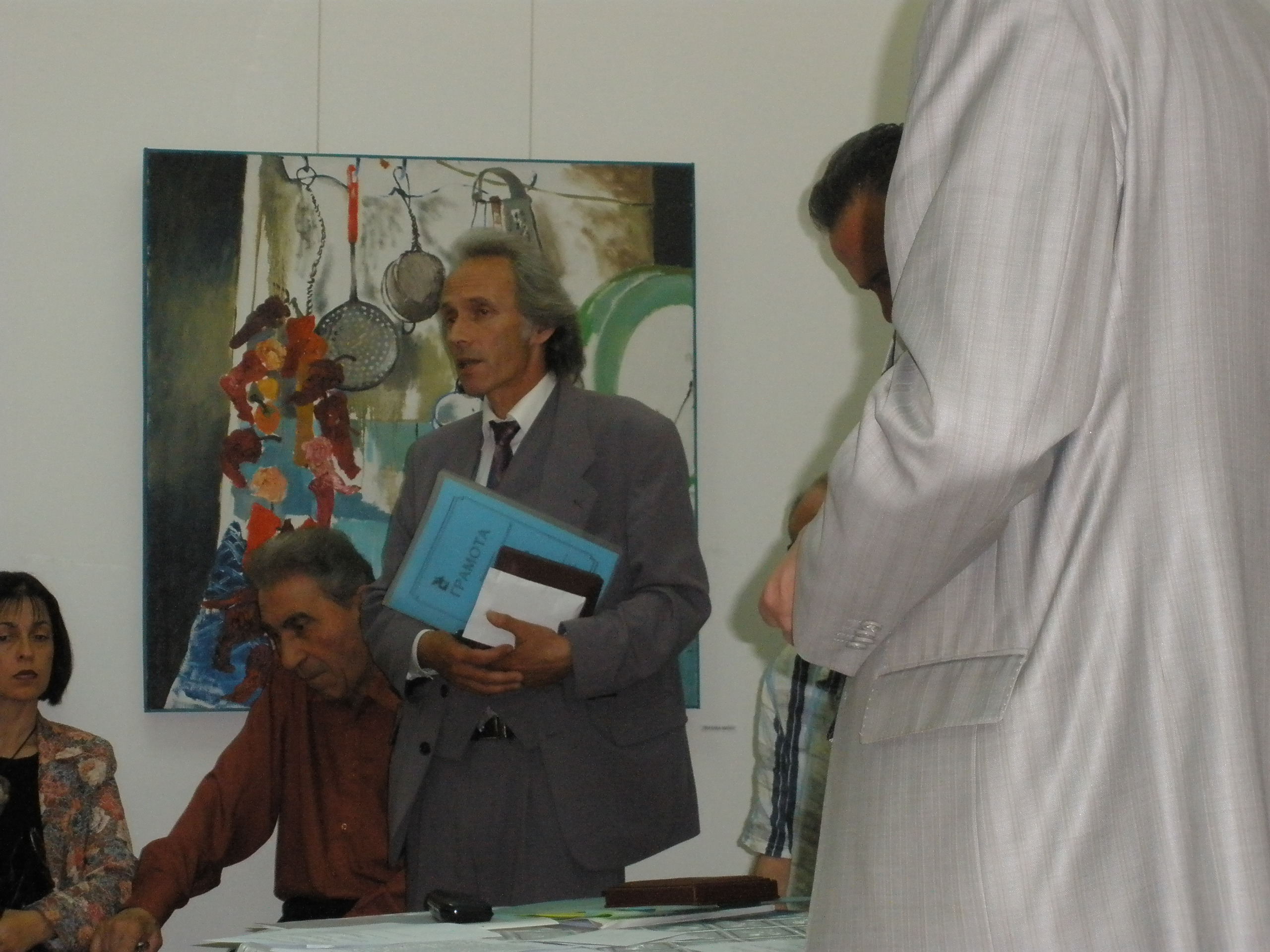 Dimitar Milov